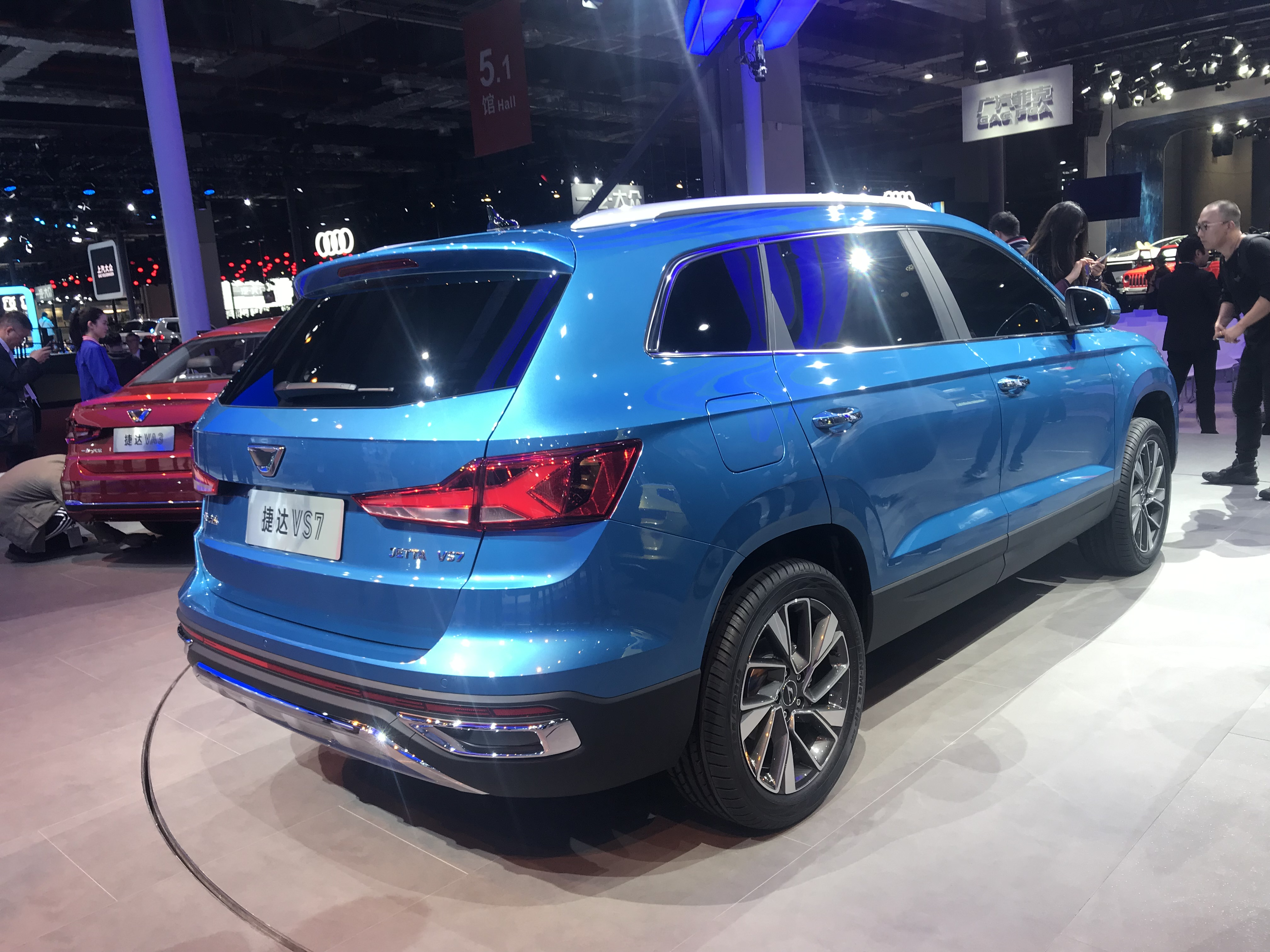 Jetta VS7 rear